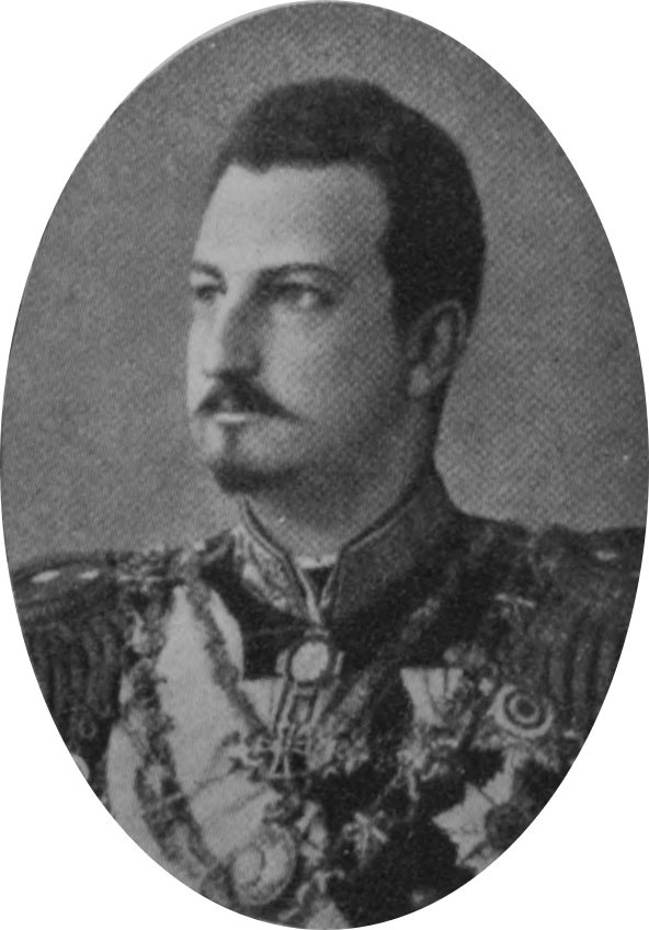 Bulgarian Tzar Ferdinand in the opening of the first Bulgarian parliament.